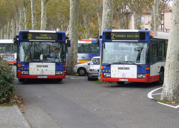 Toulouse (Haute-Garonne, France) - City buses at the "Cours Dillon" terminal.